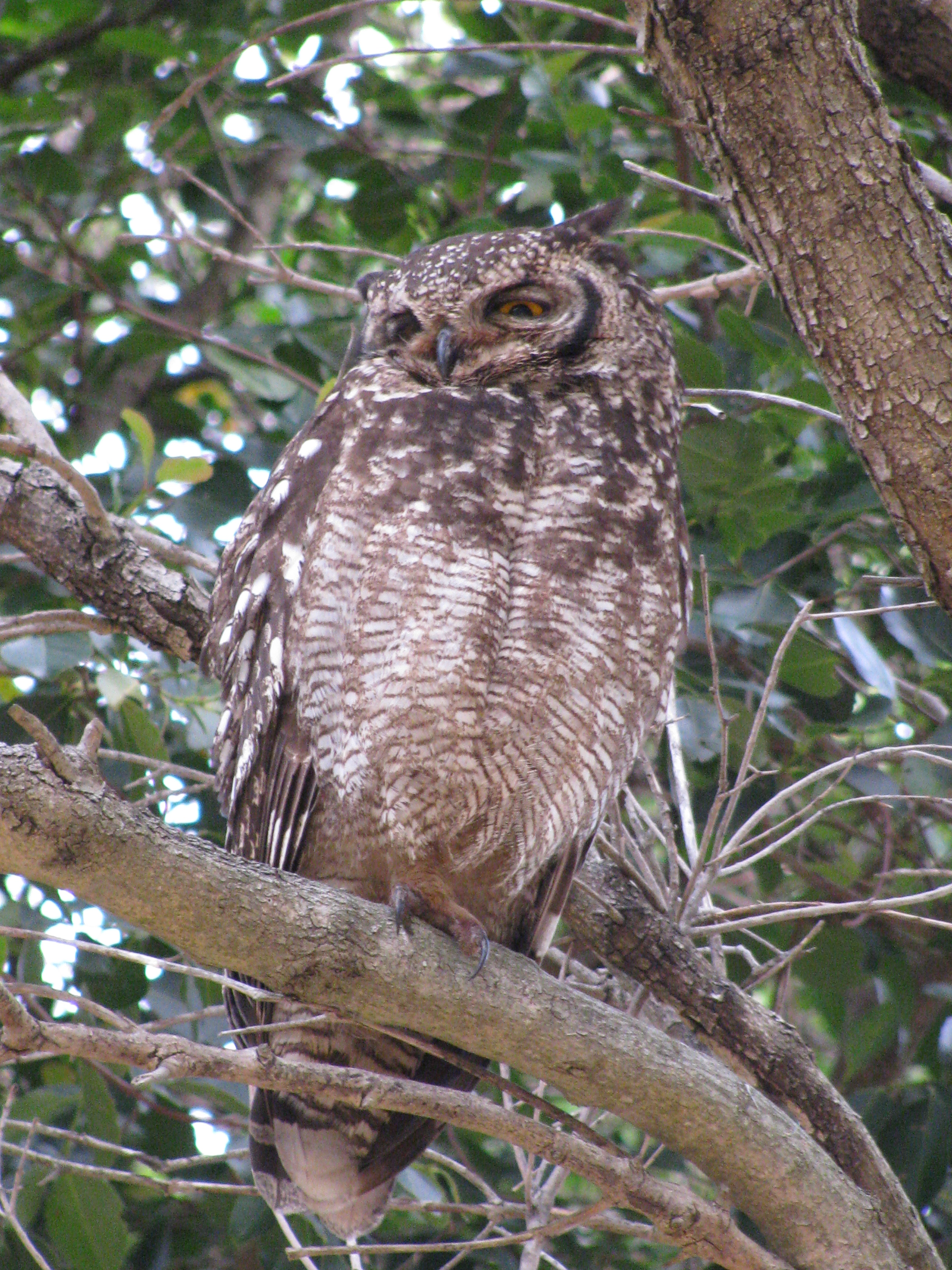 Roosting owl